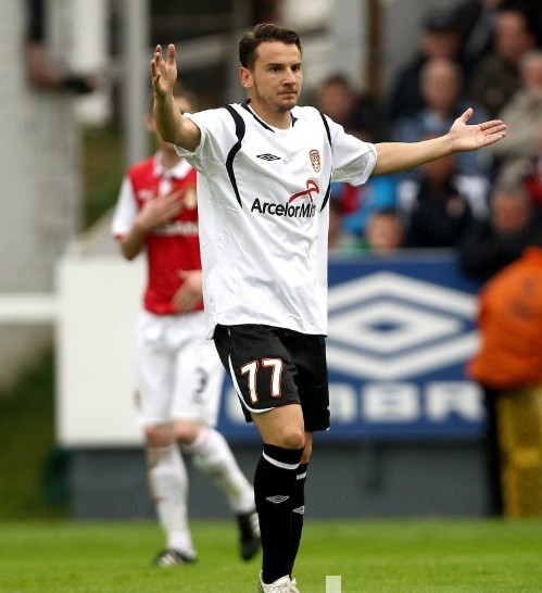 Dusan Petronijevic